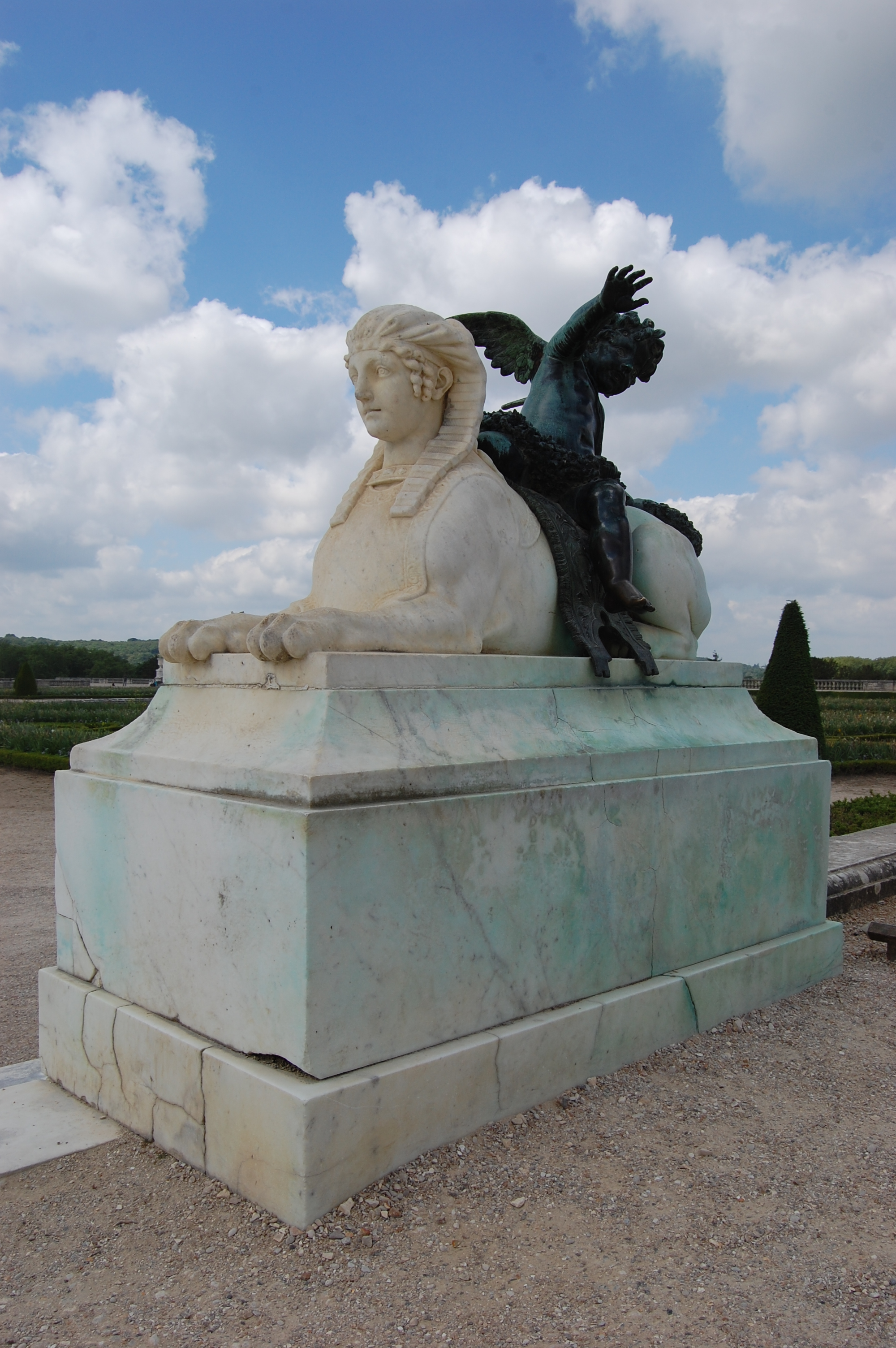 L’Amour porté par un sphinx (western Les sphinx aux enfants group) by Jacques Houzeau and Louis Lerambert, initial drawing by Jacques Sarrazin - 1660-1668